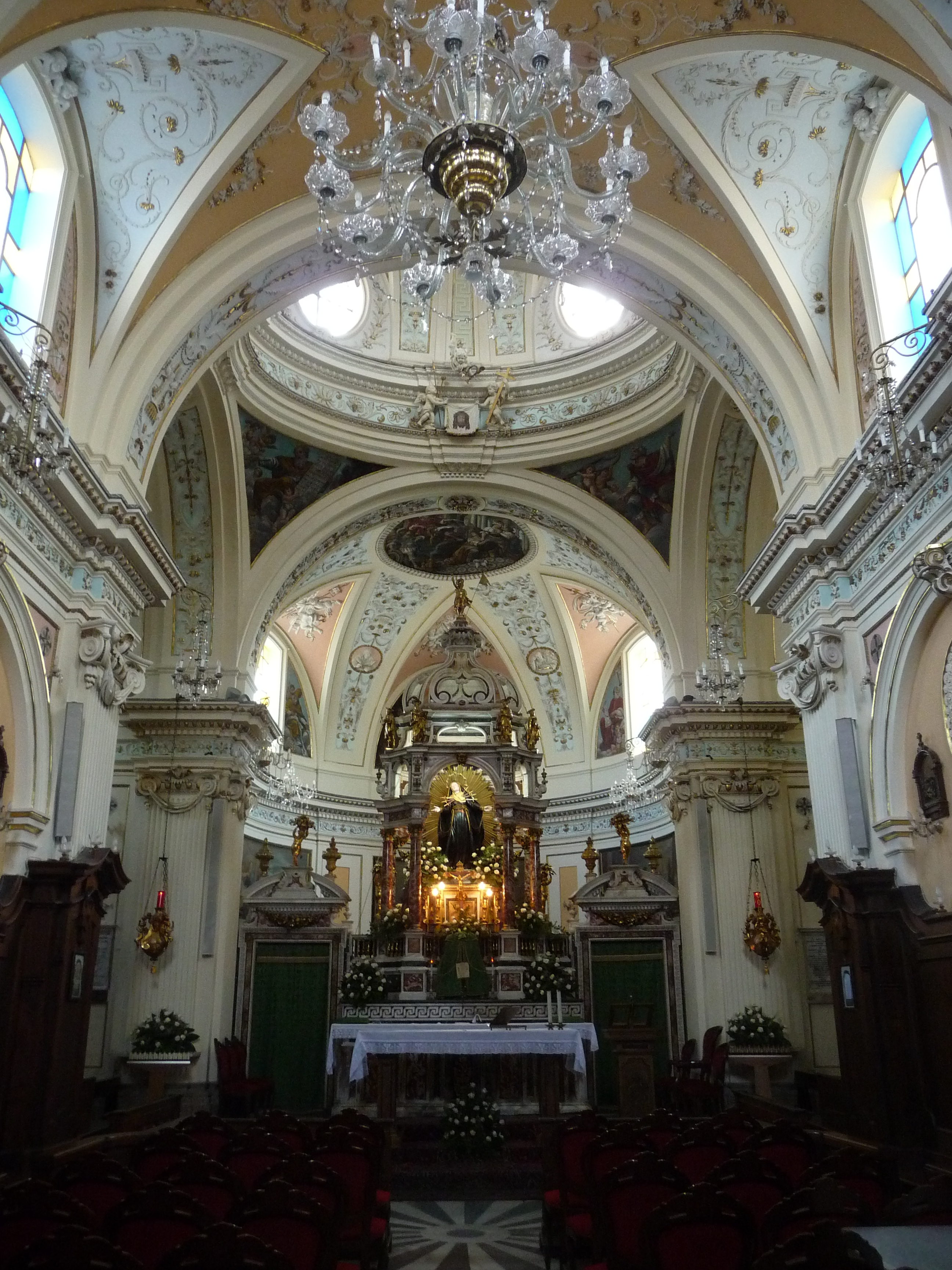 Inside Church of Madonna dei Sette dolori (Madonna of 7 pains)